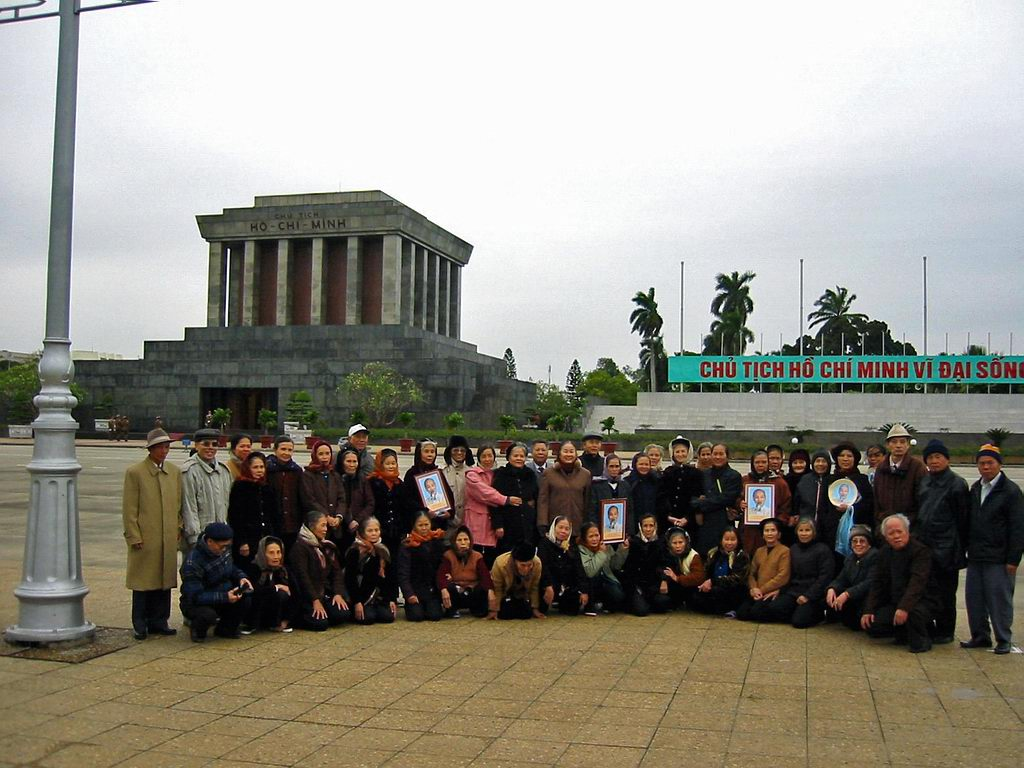 Ho Chi Minh Mausoleum, Vietnam, group of war veterans